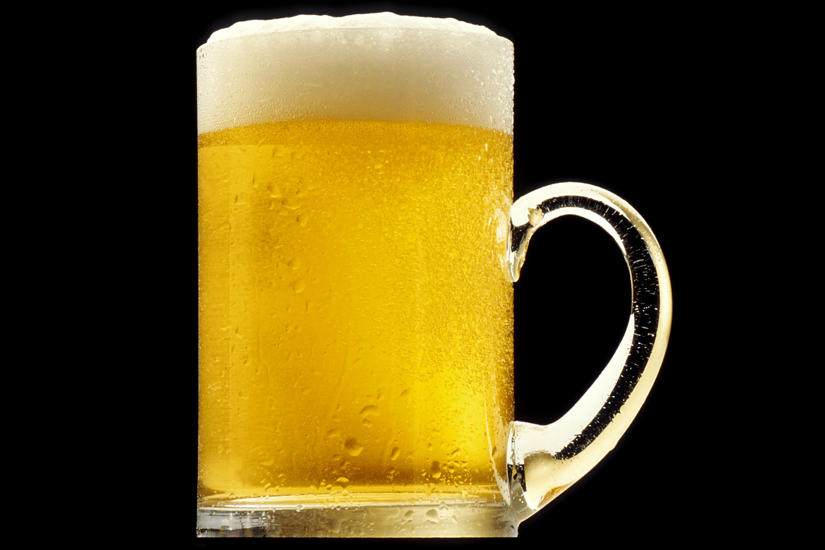 A mug of golden beer with a white froth; against a black background.